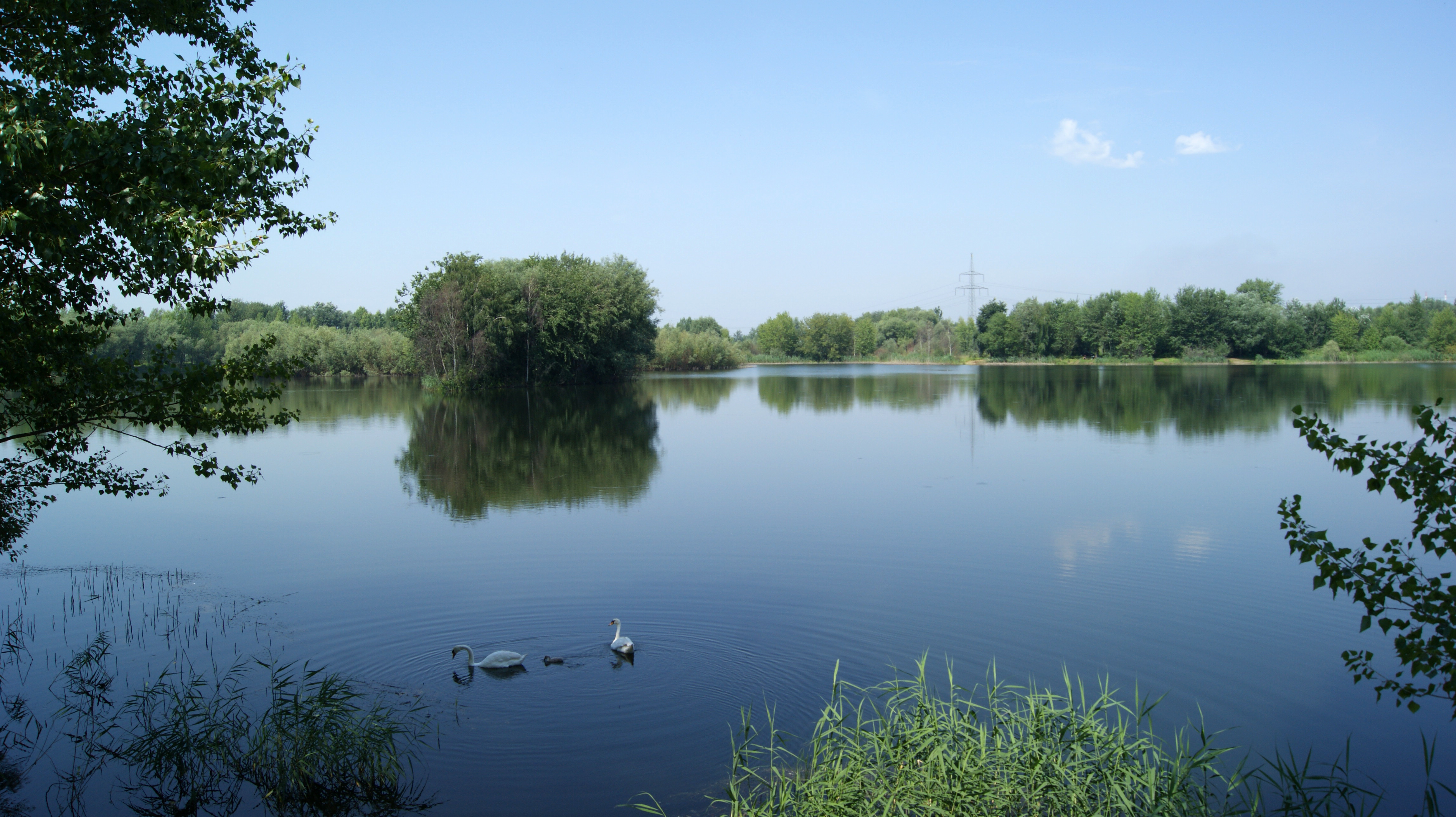 Przylasek Rusiecki Lakes-Reservoir 2, Rzepakowa street, Nowa Huta, Krakow, Poland